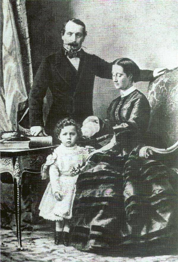 Emperor Napoleon III with his wife and their only child